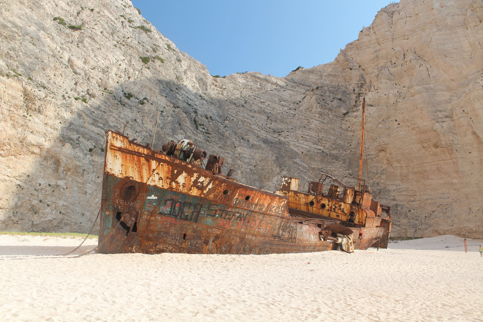 Shipwreck of the Panagiotis at the Navagio Beach